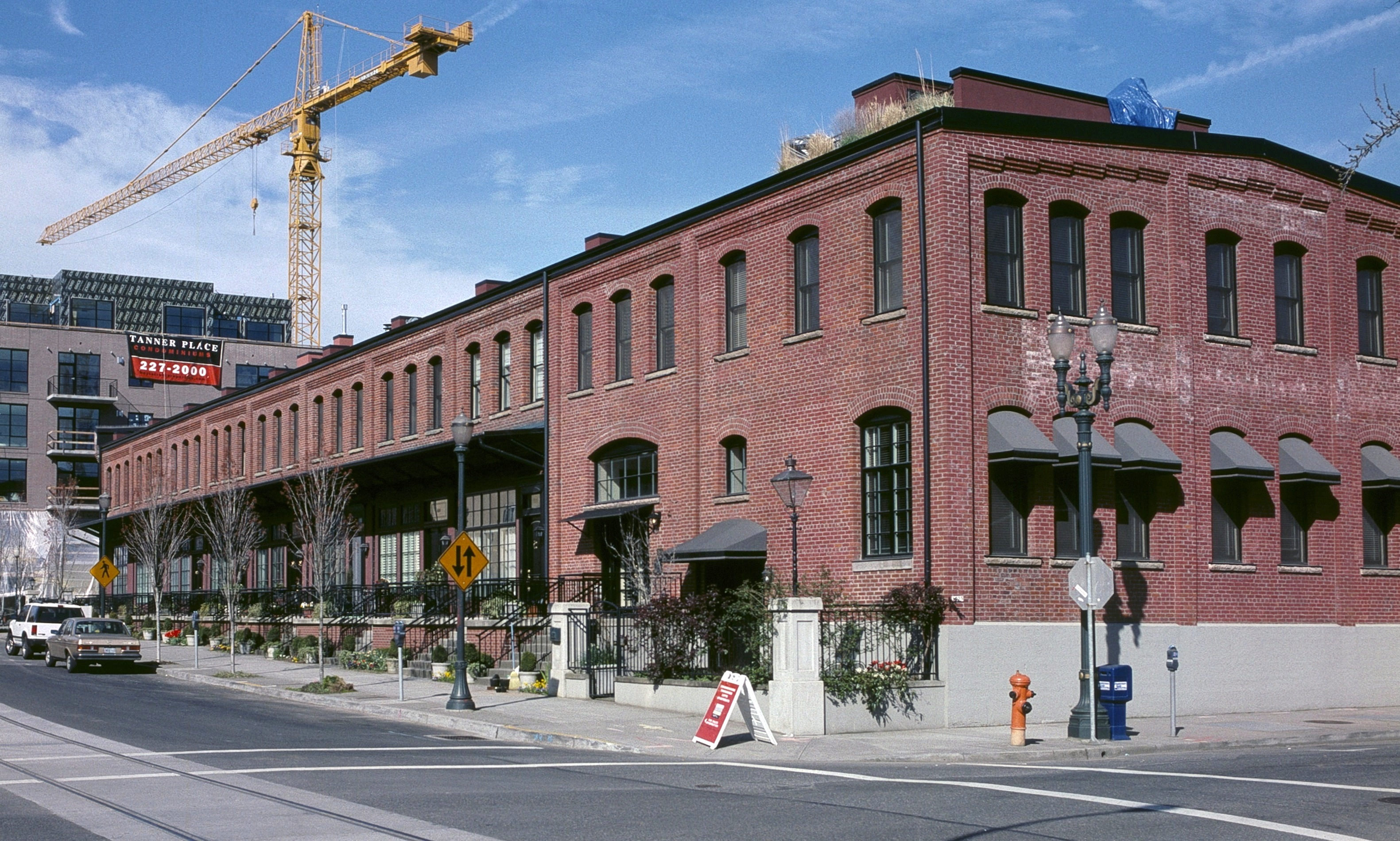 The North Bank Depot Buildings, located at NW 11th Avenue and Hoyt Street in Portland, Oregon, United States, are a generally matching pair of buildings listed on the US National Register of Historic Places (NRHP). Shown here is the east building, at 1029–1035 NW Hoyt Street, which was used as a passenger terminal by the Spokane, Portland and Seattle Railway from 1908 until the 1920s and by the Oregon Electric Railway from 1910–1931. It was later used as a freight depot and warehouse, as was the west building (at 1101 NW Hoyt, not shown here, out of view to the left), and the buildings were known as the East and West Freight Houses of SP&S. This early 2000 photo shows the east building shortly after it was refitted for use as residential dwellings.